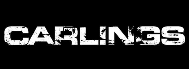 carlings